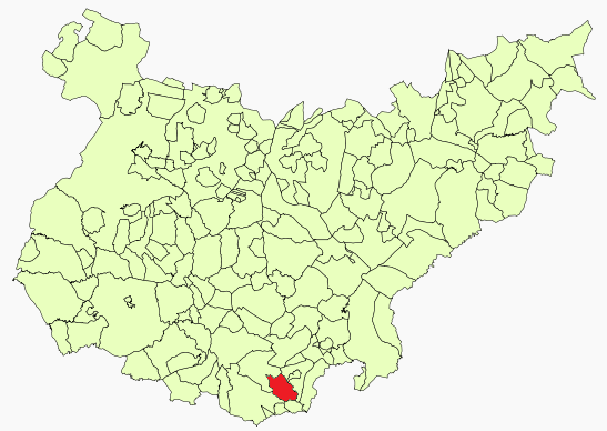 Puebla del Maestre